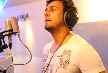 Sonu Nigam recording a song, 2013